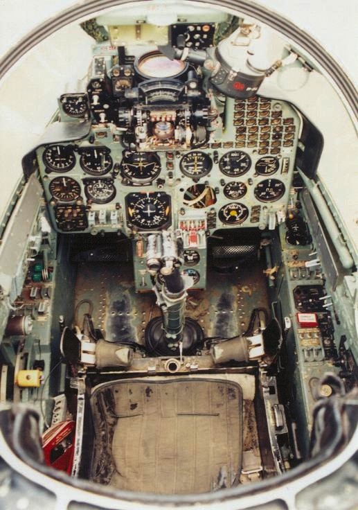 Cockpit of the Yakovlev Yak-38 VTOL fighter